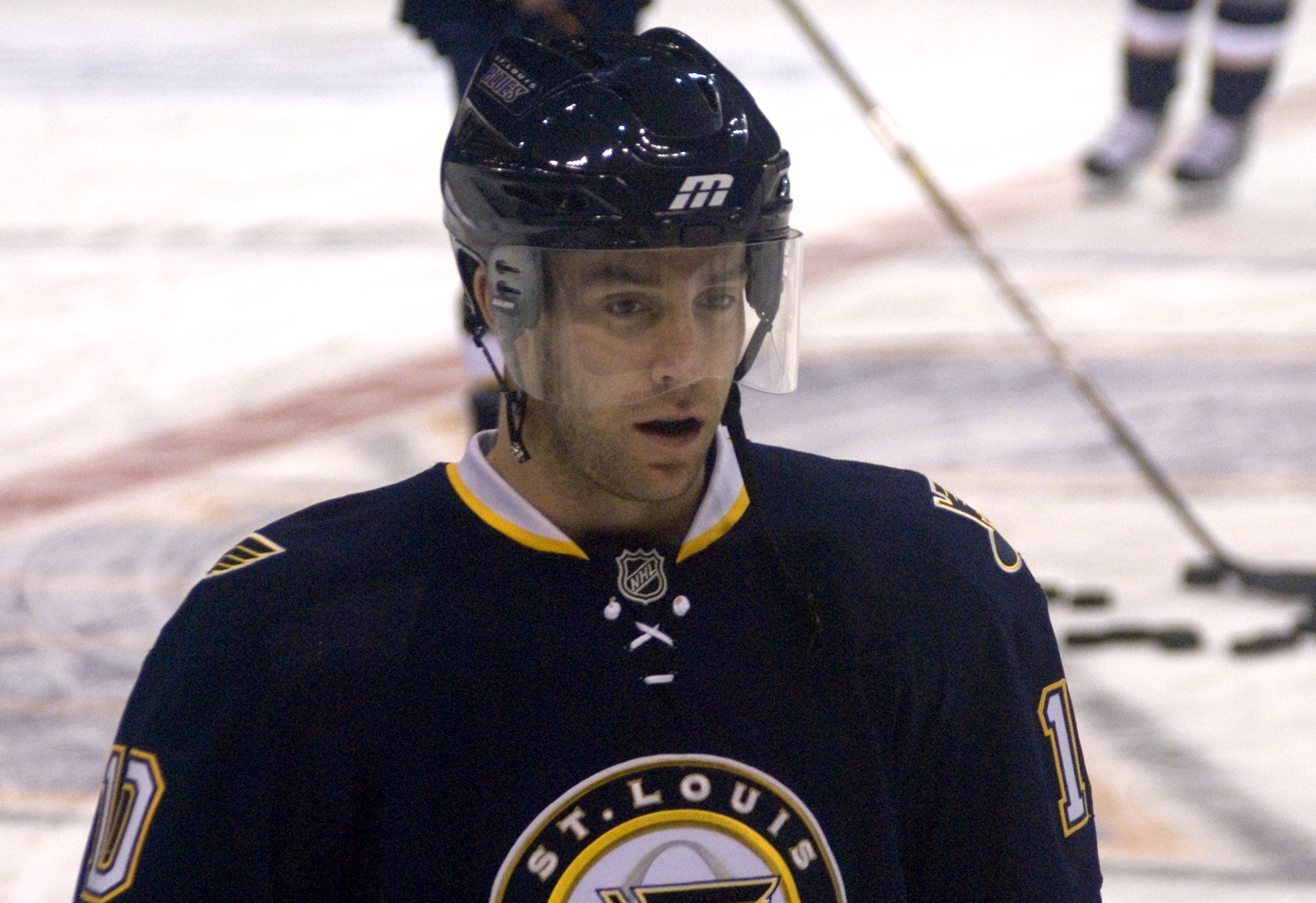 ERI_4835 St. Louis Blues vs. Chicago Blackhawks National Hockey League - 2010–11 NHL season. Photos taken by Sarah Connors on February 21, 2011. Blues lost, 5-3.